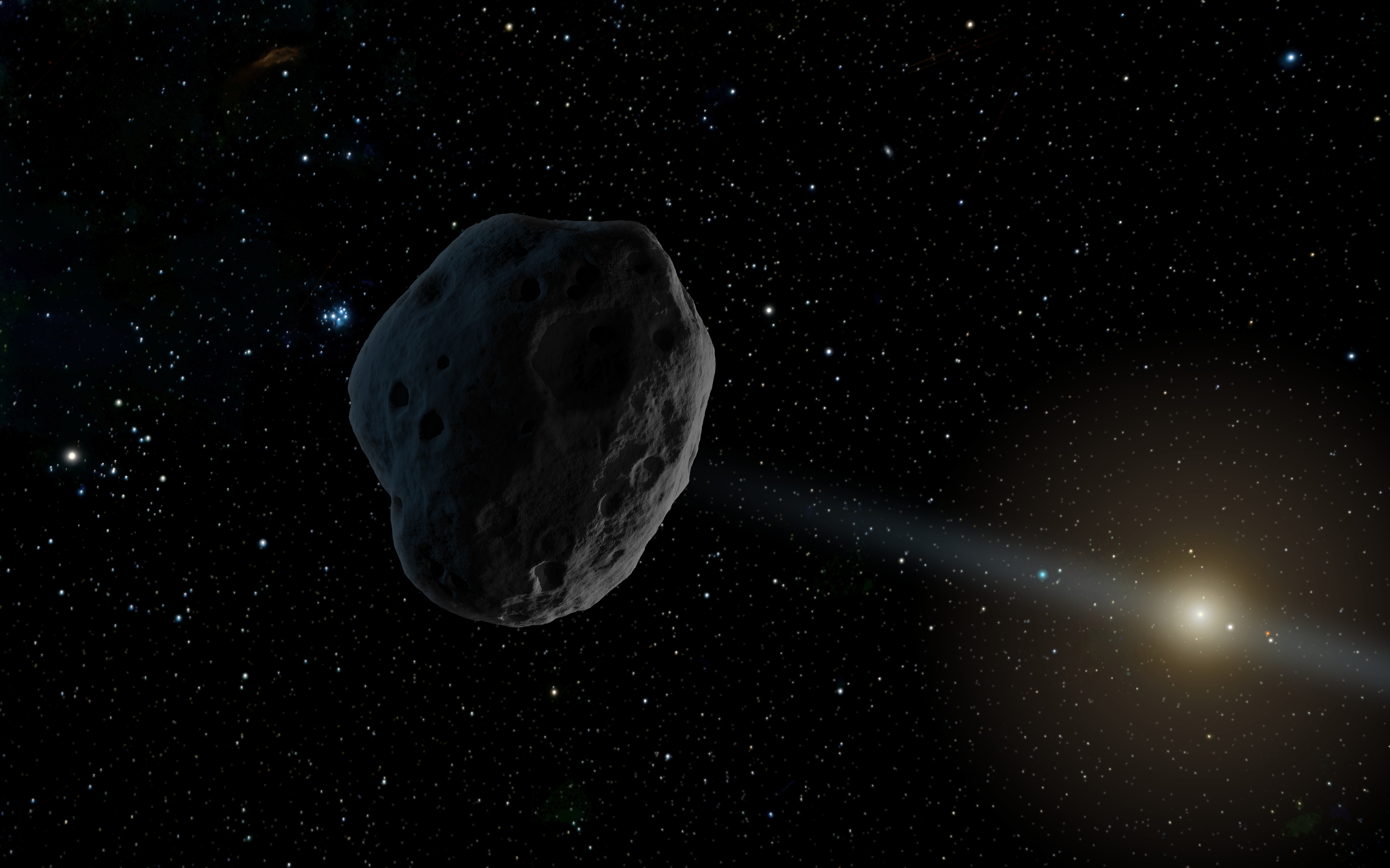 An artist’s rendition of 2016 WF9 as it passes Jupiter’s orbit inbound toward the sun. JPL manages NEOWISE for NASA's Science Mission Directorate at the agency's headquarters in Washington. The Space Dynamics Laboratory in Logan, Utah, built the science instrument. Ball Aerospace & Technologies Corp. of Boulder, Colorado, built the spacecraft. Science operations and data processing take place at the Infrared Processing and Analysis Center at the California Institute of Technology in Pasadena. Caltech manages JPL for NASA. More information is online at and